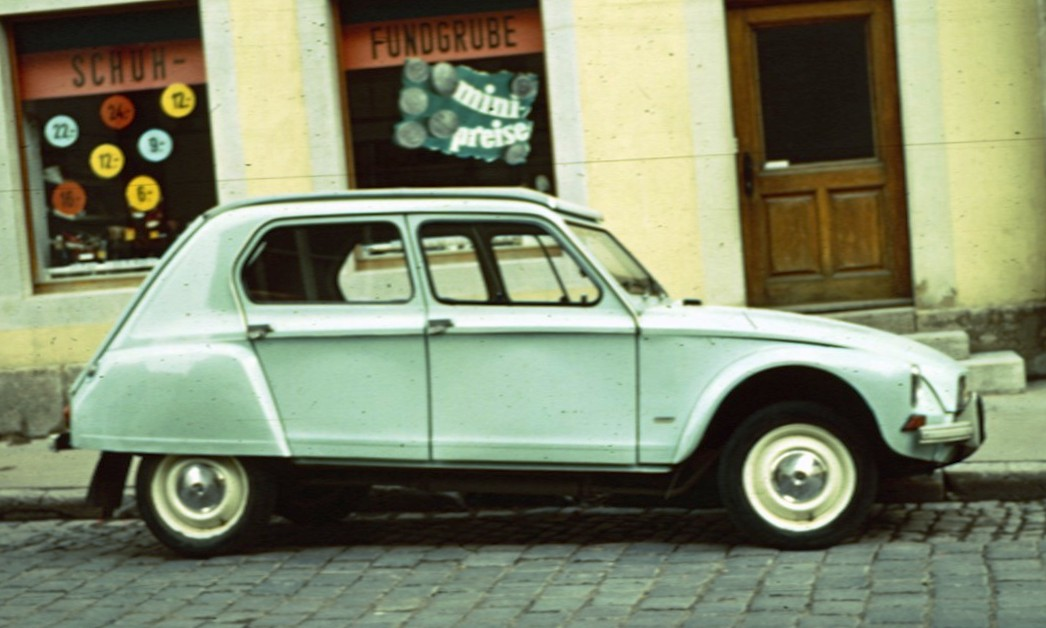 Early Dyane in Germany